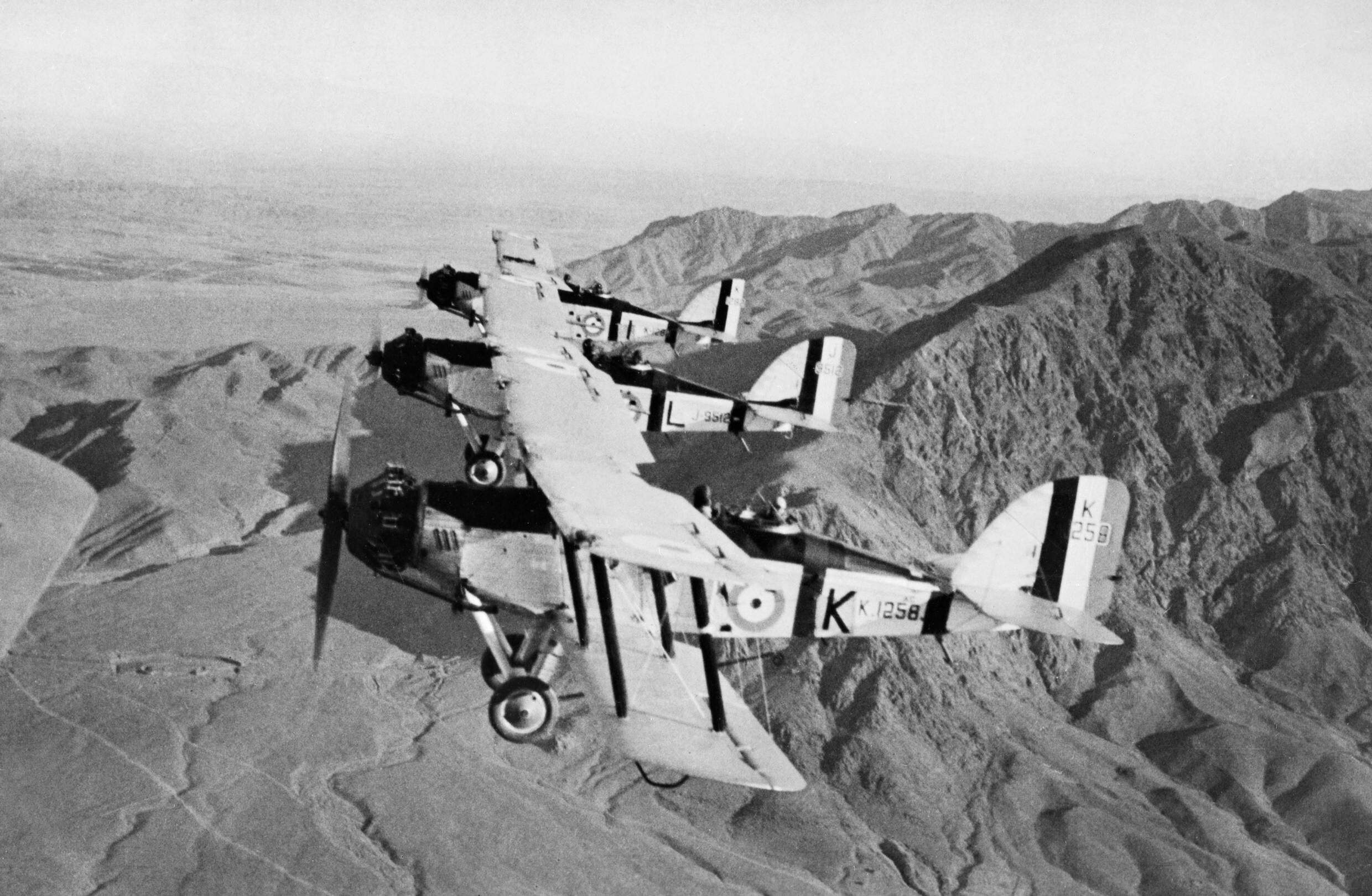 Three Royal Air Force Westland Wapiti Mark IIA aircraft (s/n K1248, J9512 and K1282) of 'X' Flight, No. 31 Squadron RAF, flying in line abreast formation over the North West Frontier of India in the early 1930s.